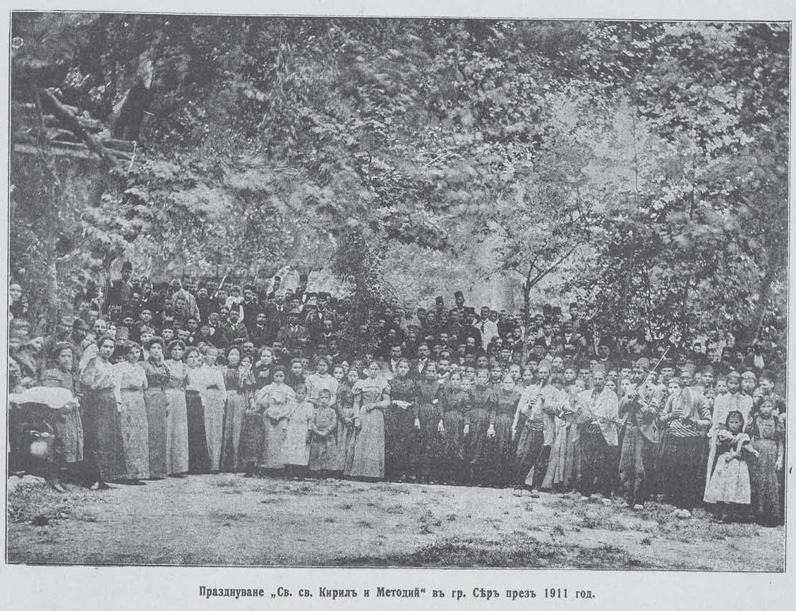 Celebrating St.St. Cyril and Methodius (11 may, 1911) in Ser, Serres